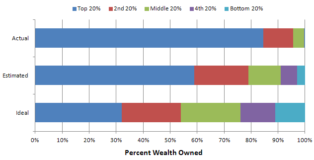 Ghana percent wealth owned chart; wealth distribution and wealth inequality chart.